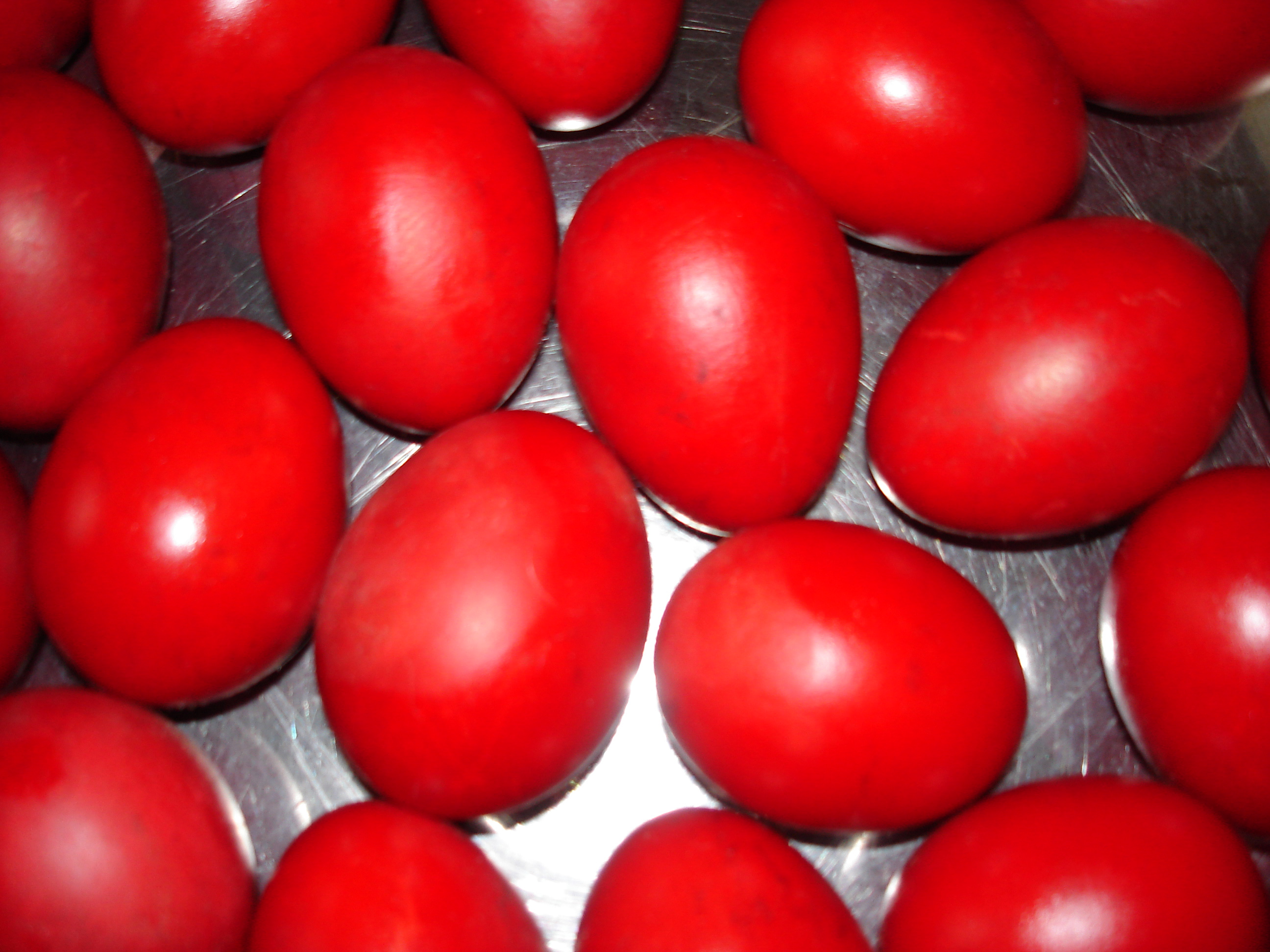 Easter Eggs in Greece